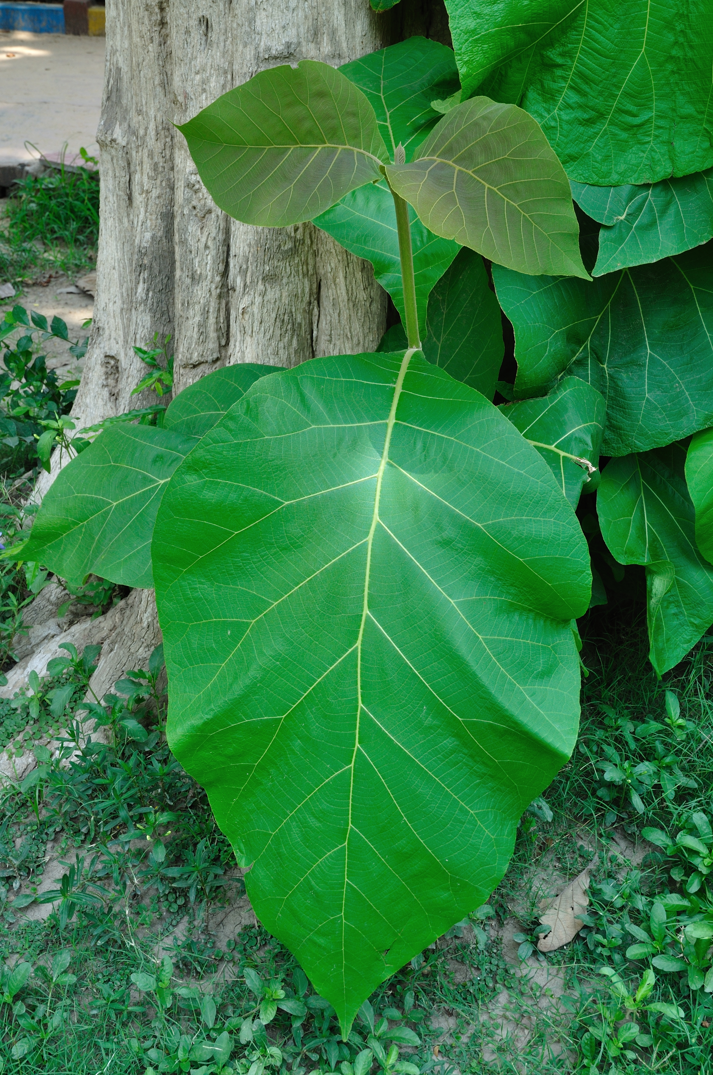 Teak is the common name for the tropical hardwood tree species Tectona grandis and its wood products.Tectona grandis is native to south and southeast Asia, mainly India, Indonesia, Malaysia, and Myanmar.